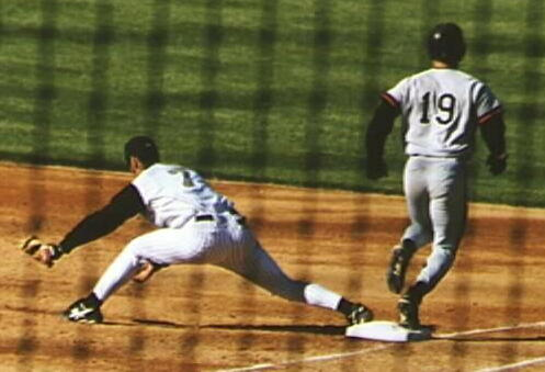 First baseman Gary LoCurto (left) of the Michigan Battle Cats stretches to field a throw at first base while Mike Rose of the Quad City River Bandits attempts to beat out the throw during a 1998 game in Battle Creek, Michigan.